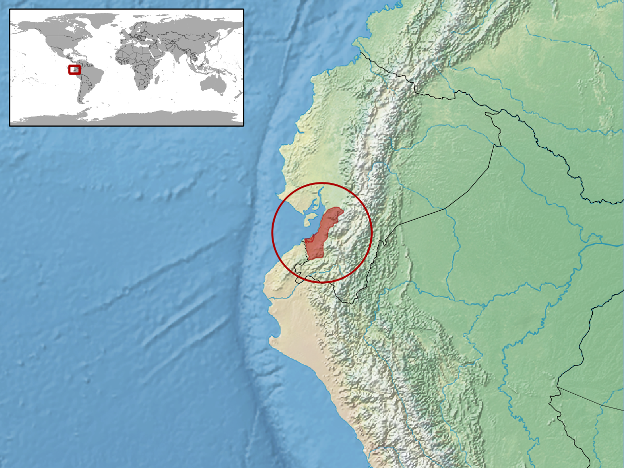 geographic distribution of Coniophanes dromiciformis (Native: Ecuador)